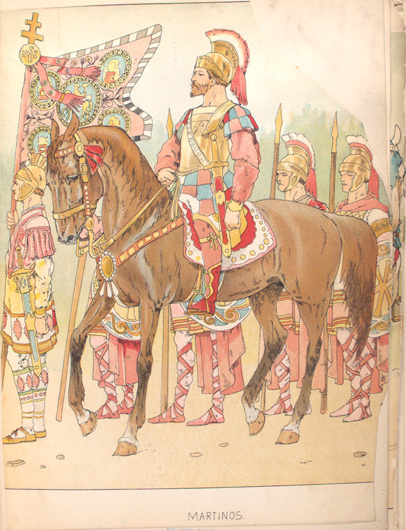 Fanciful ahistorical representation of Byzantine warriors. Drawing from Vinkhuijzen Collection of Military Costume Illustration.